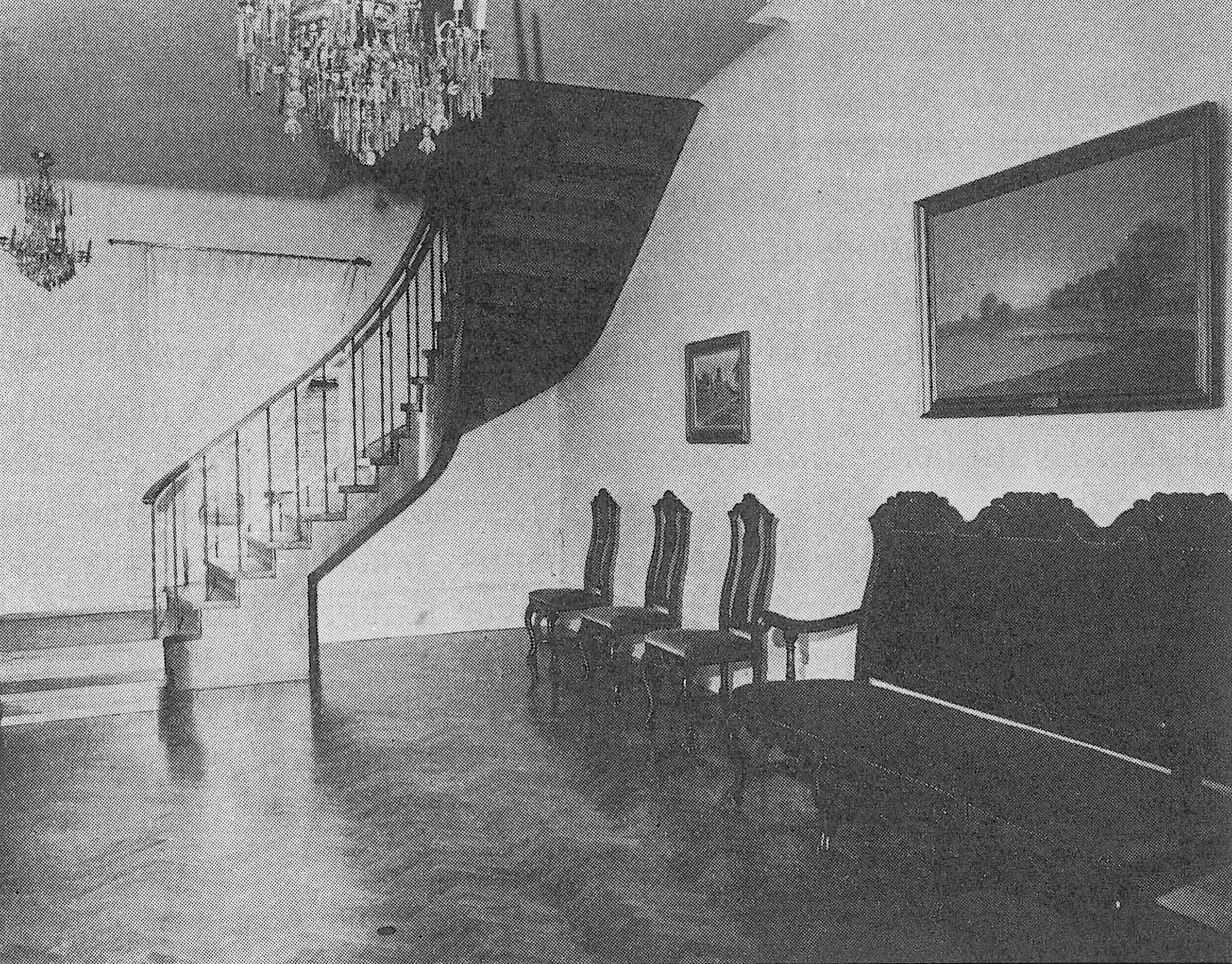 Kalmar Nation second house, Viktoria hall.